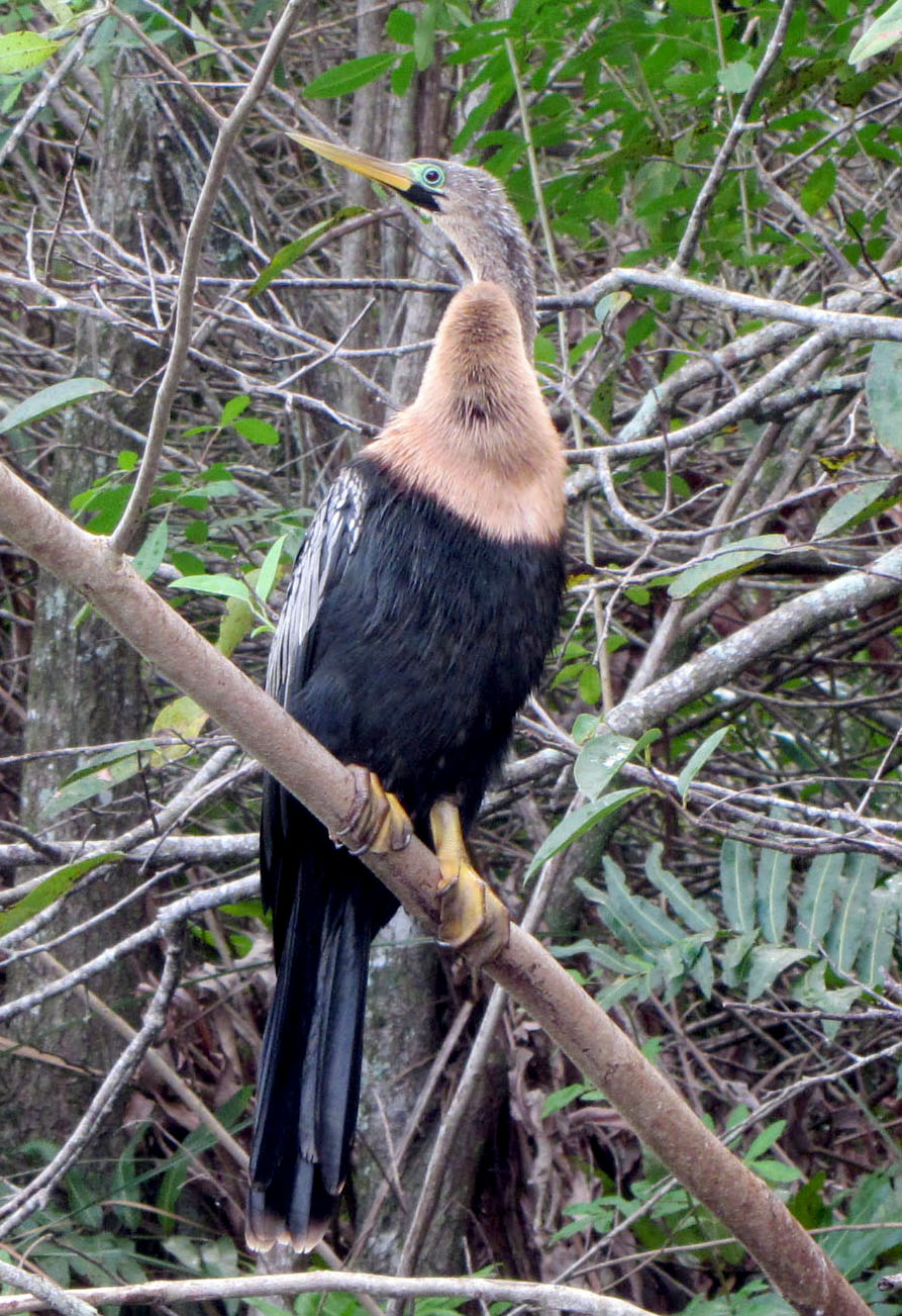 Anhinga anhinga